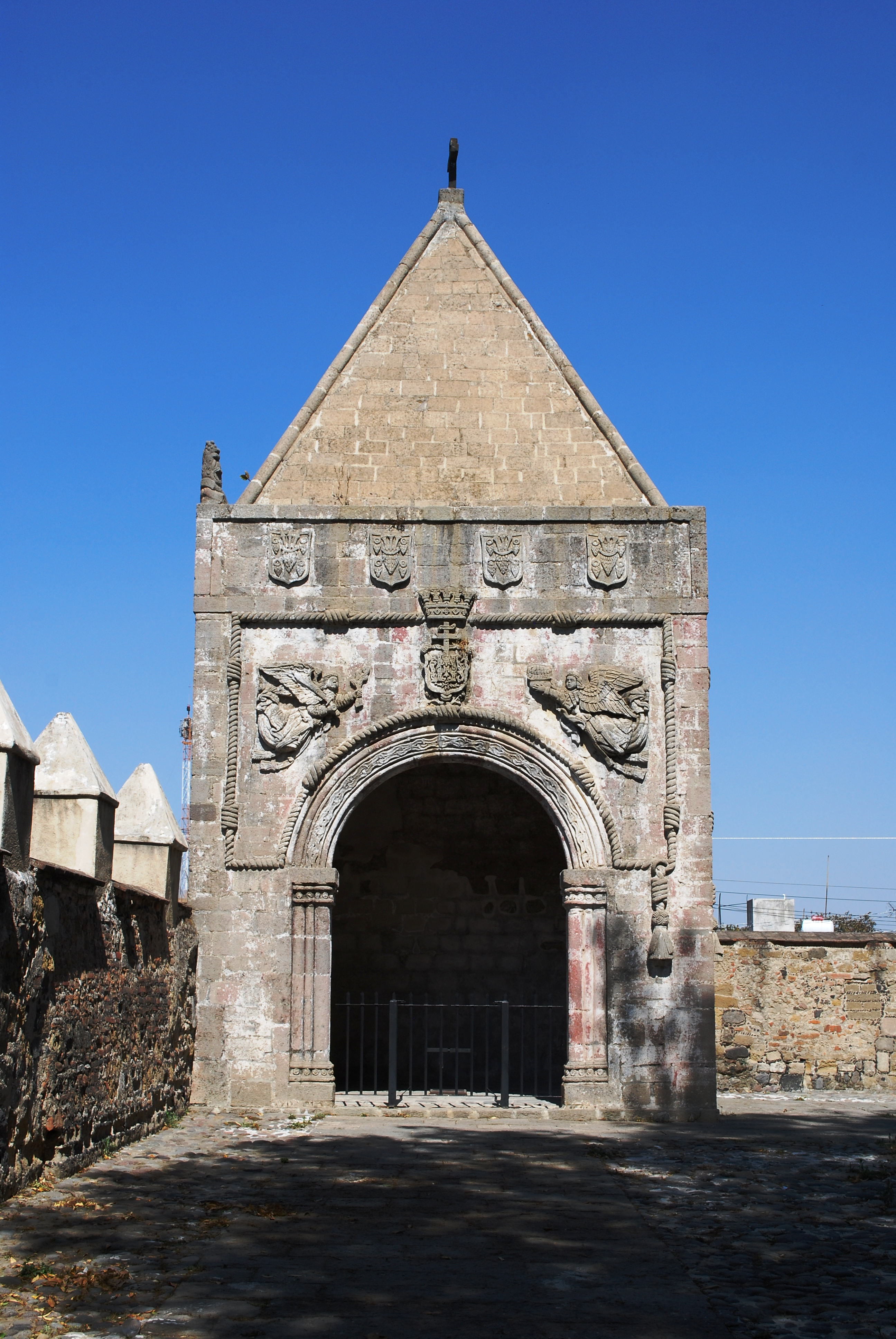 Atrium chapel in the northwest corner dedicated to Santiago at the monastery of San Miguel Arcangel in Huejotzingo, Puebla, Mexico